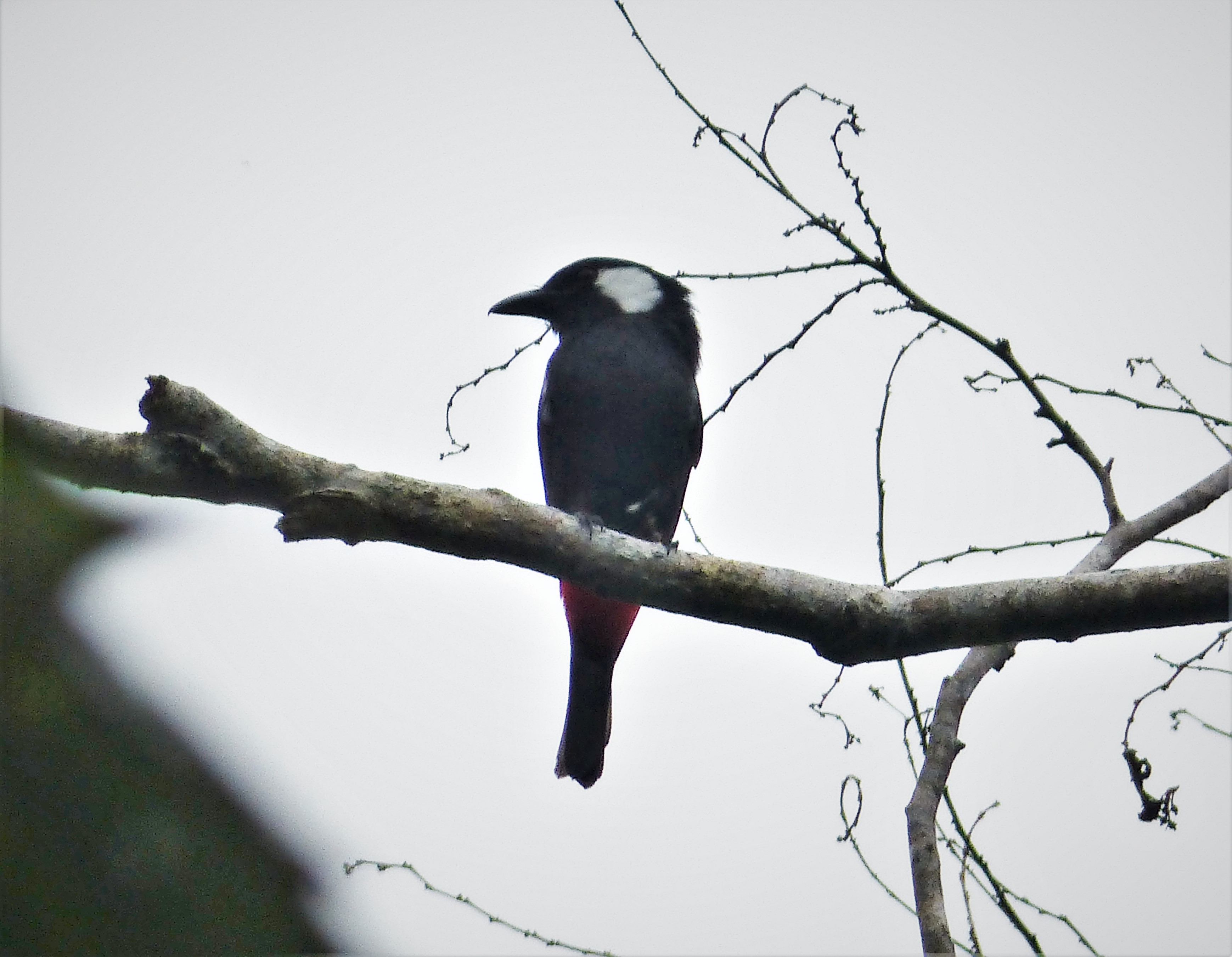 Lowland Peltops. Peltops blainvillii